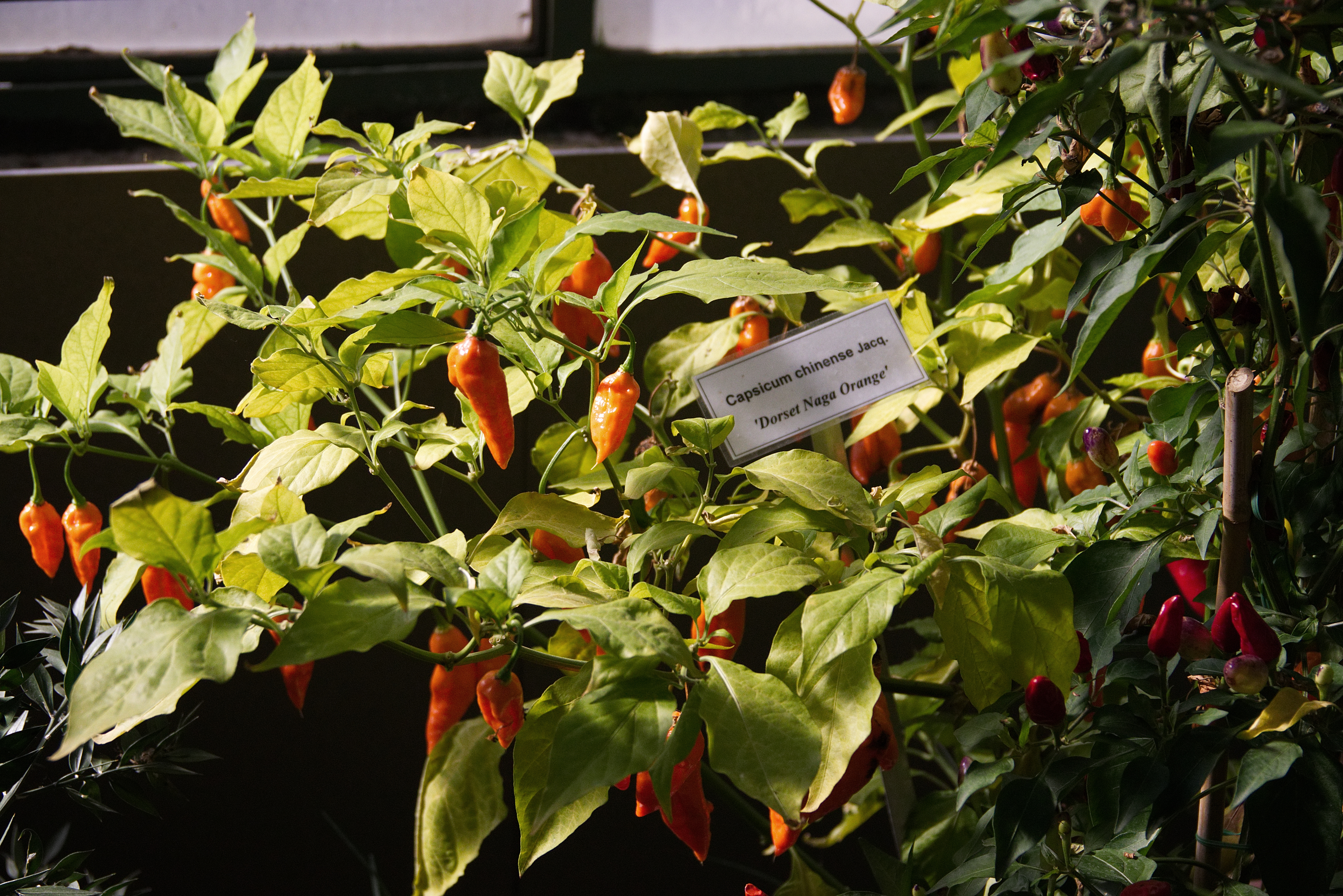 Capsicum chinense Jacq. 'Dorset Naga Orange', picture taken at the zoological-botanical garden Wilhelma, Stuttgart, Germany